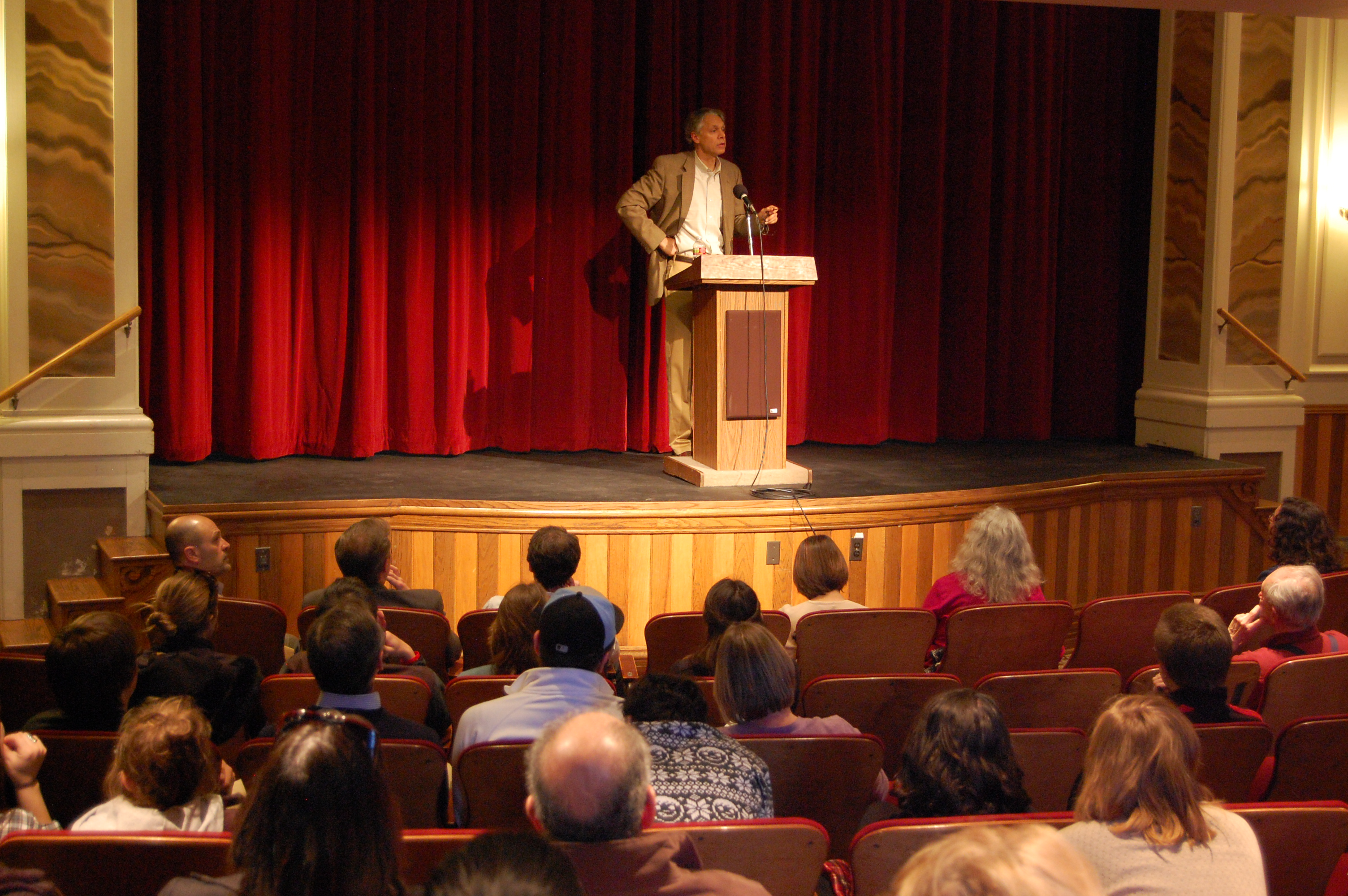 Teen Web 3.0: Social Media as Age Segregation - Prof. Mark Bauerlein spoke at CU Boulder on 1/26 at 4pm in Old Main Chapel